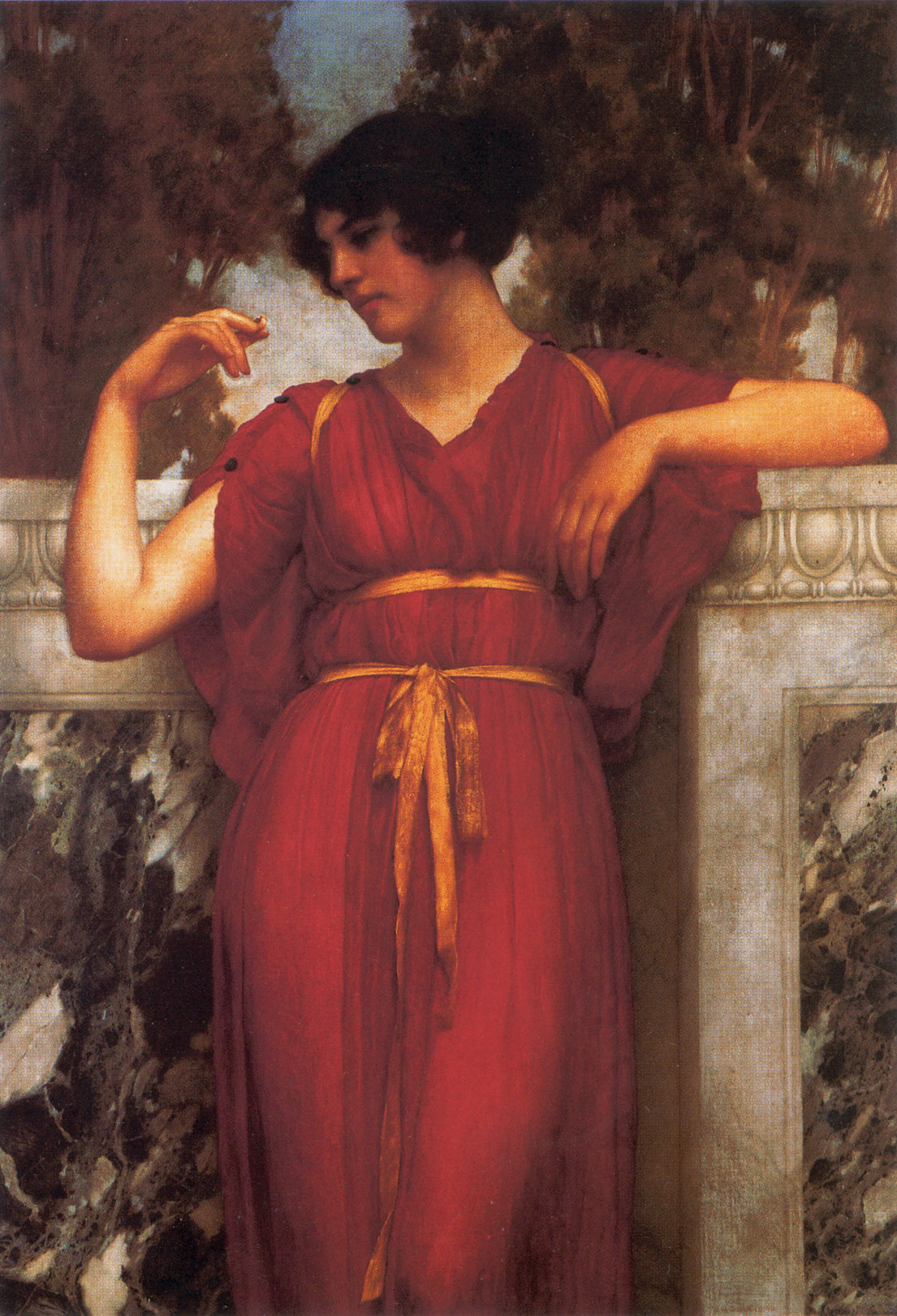 The Ring